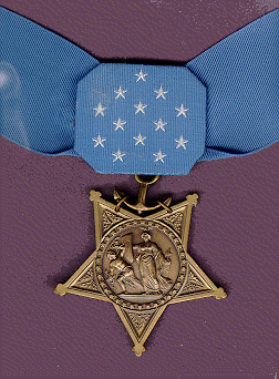 United States Navy version of the Congressional Medal of Honor